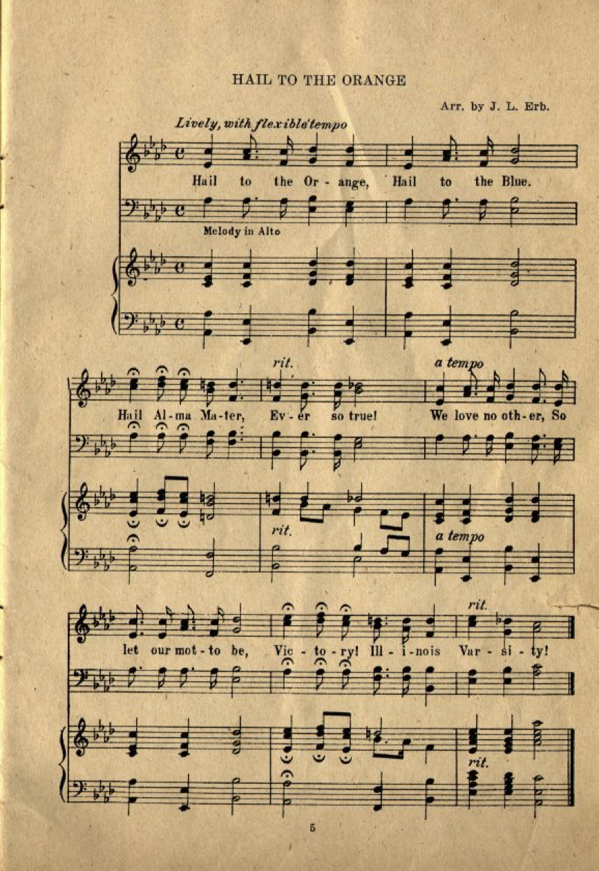 "Hail to the Orange" as printed in Illini Songbook, 1924 edition. Piano-vocal score, arranged by J. L. Erb. Copyrighted in 1915.